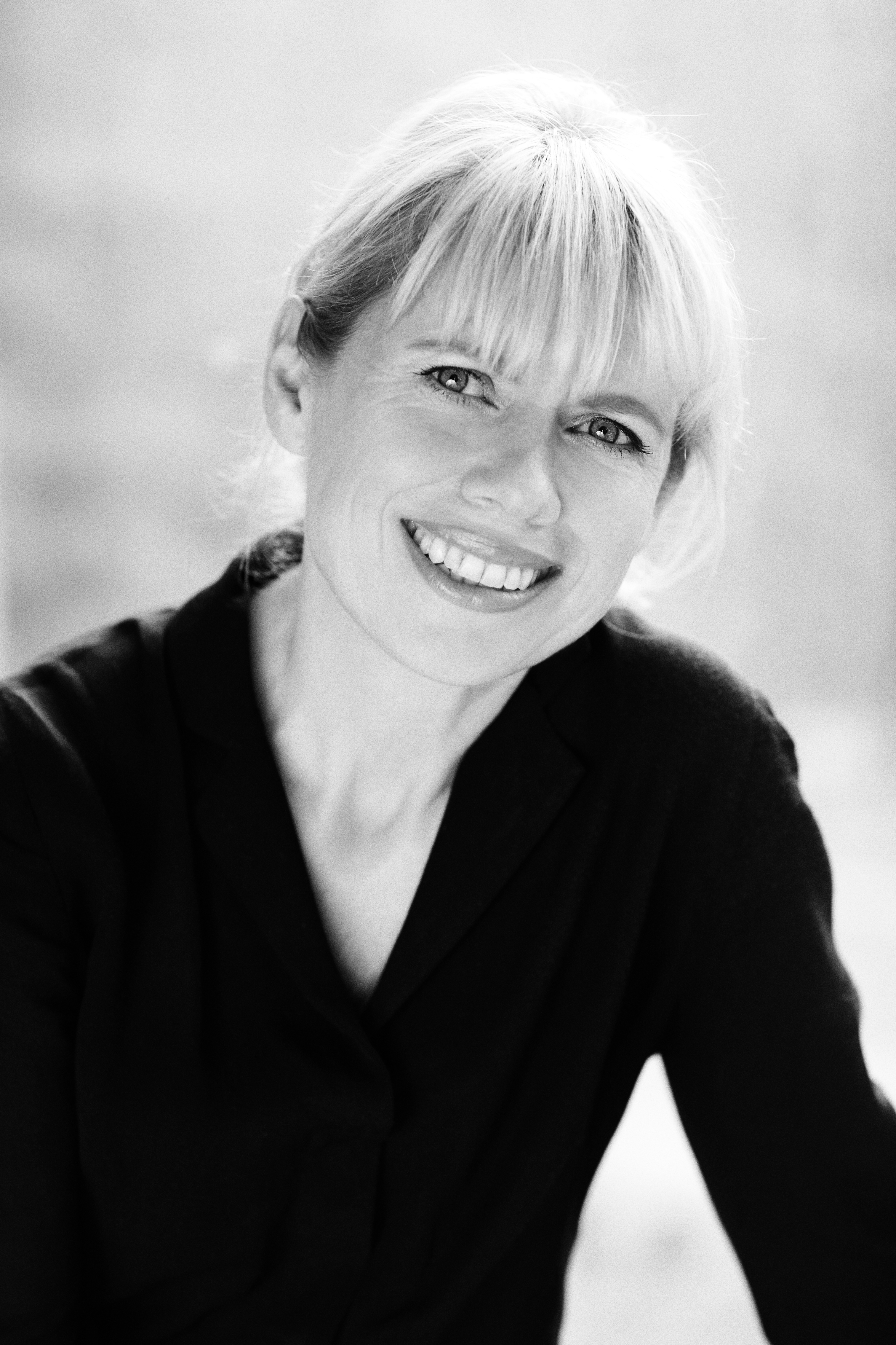 Czech architect Pavla Melkova